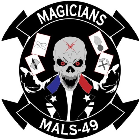 new mals-49 unit logo